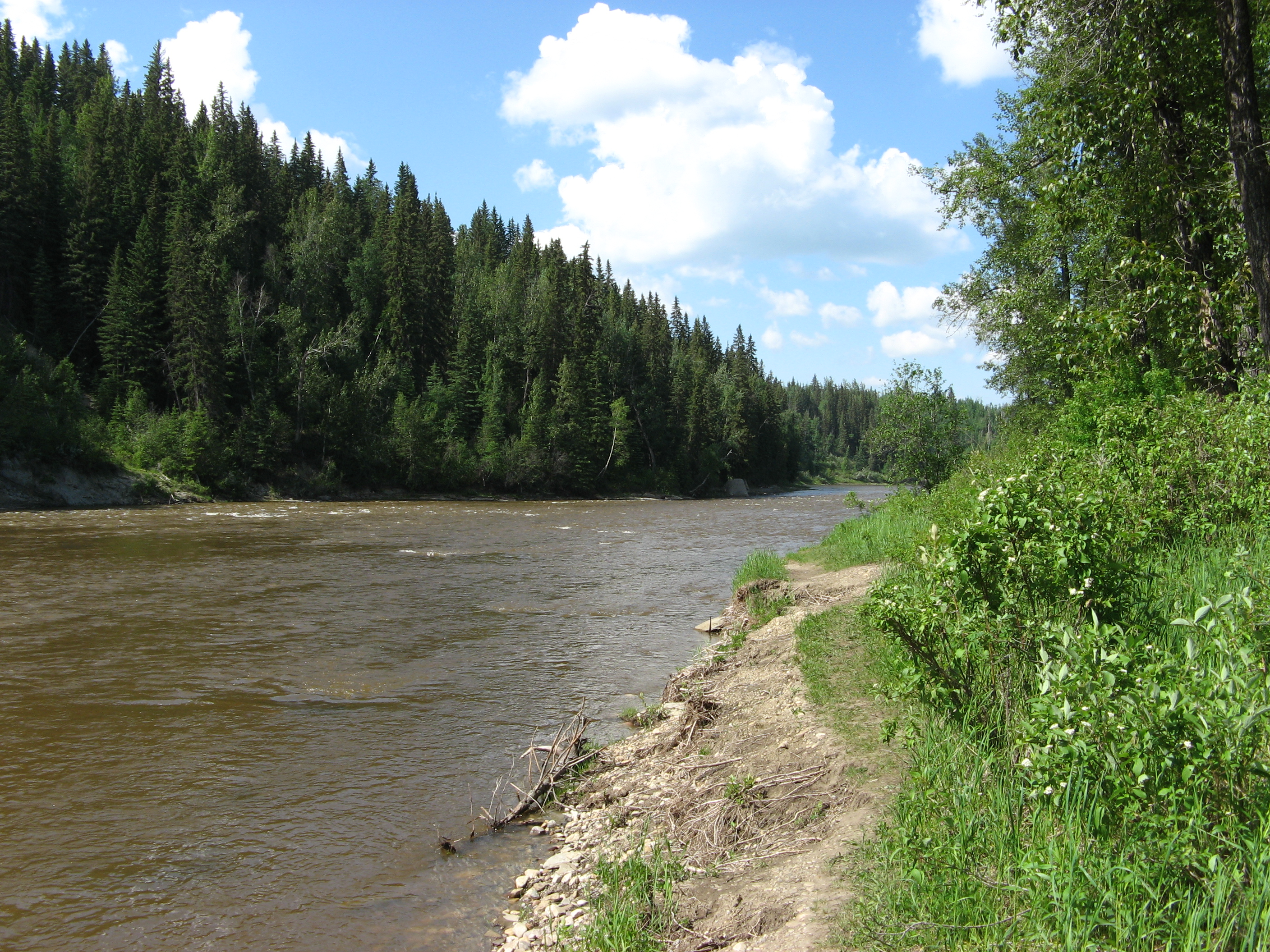 Pembina River - Author